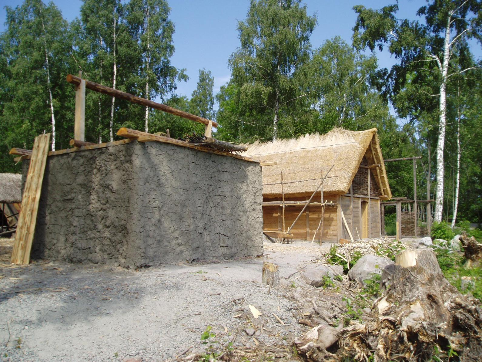 New houses in Middle Ages style, Birka, Sweden